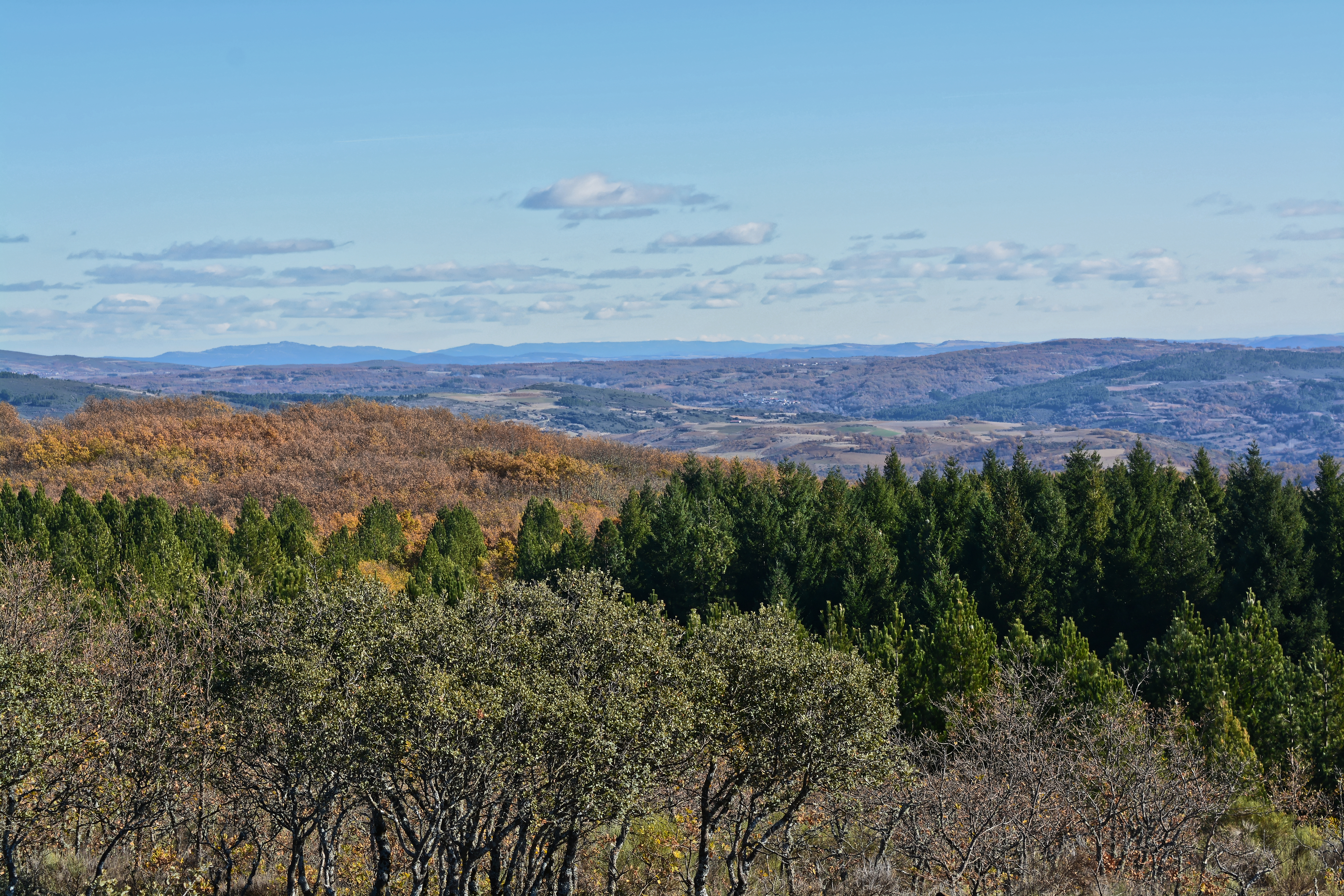 This is a photography of a Site of Community Importance in Portugal with the ID: Parque Natural de Montesinho. Natural de Montesinho Natura2000 entry, Natural de Montesinho EEA entry